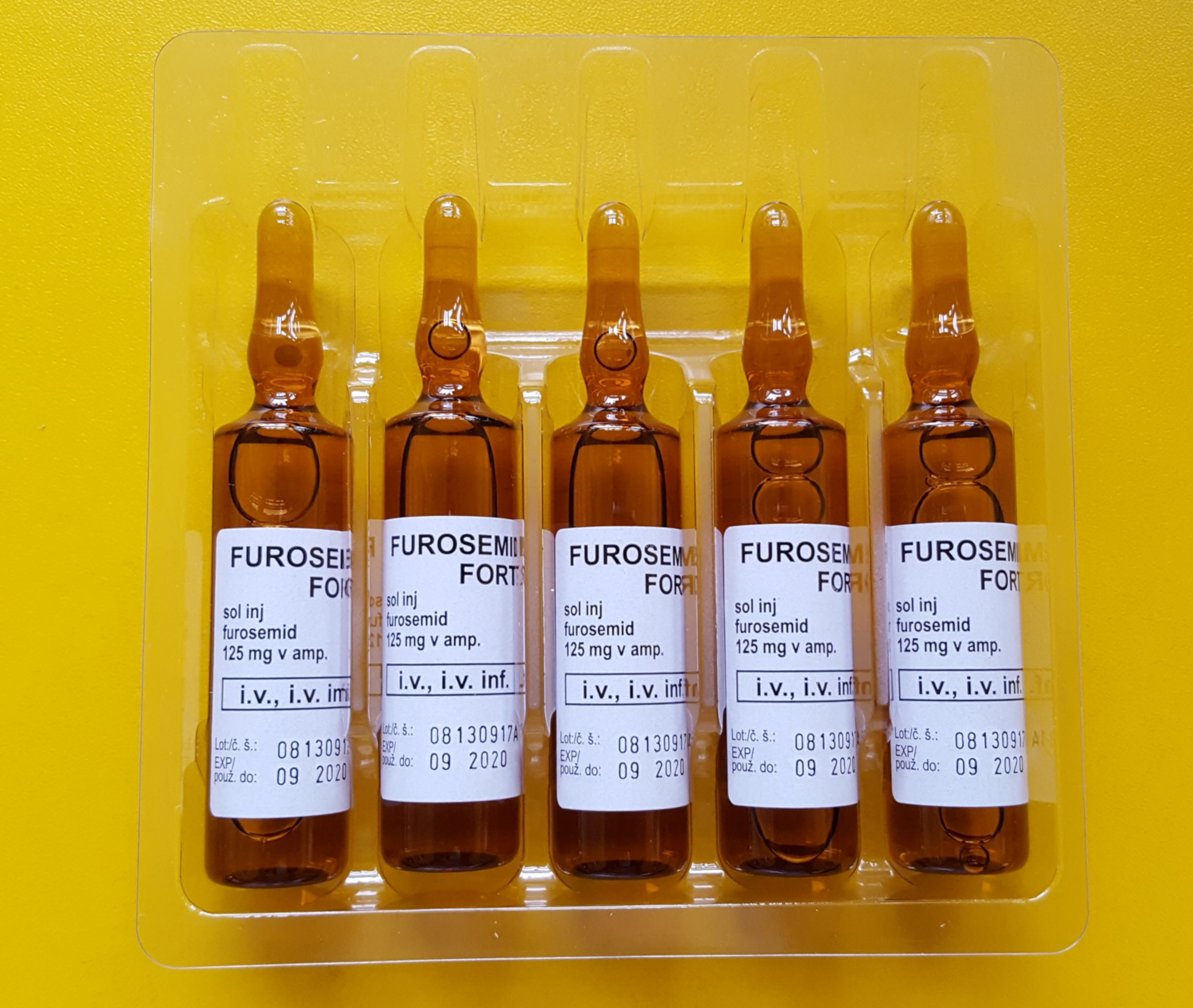 Furosemide 125mg/2ml vials